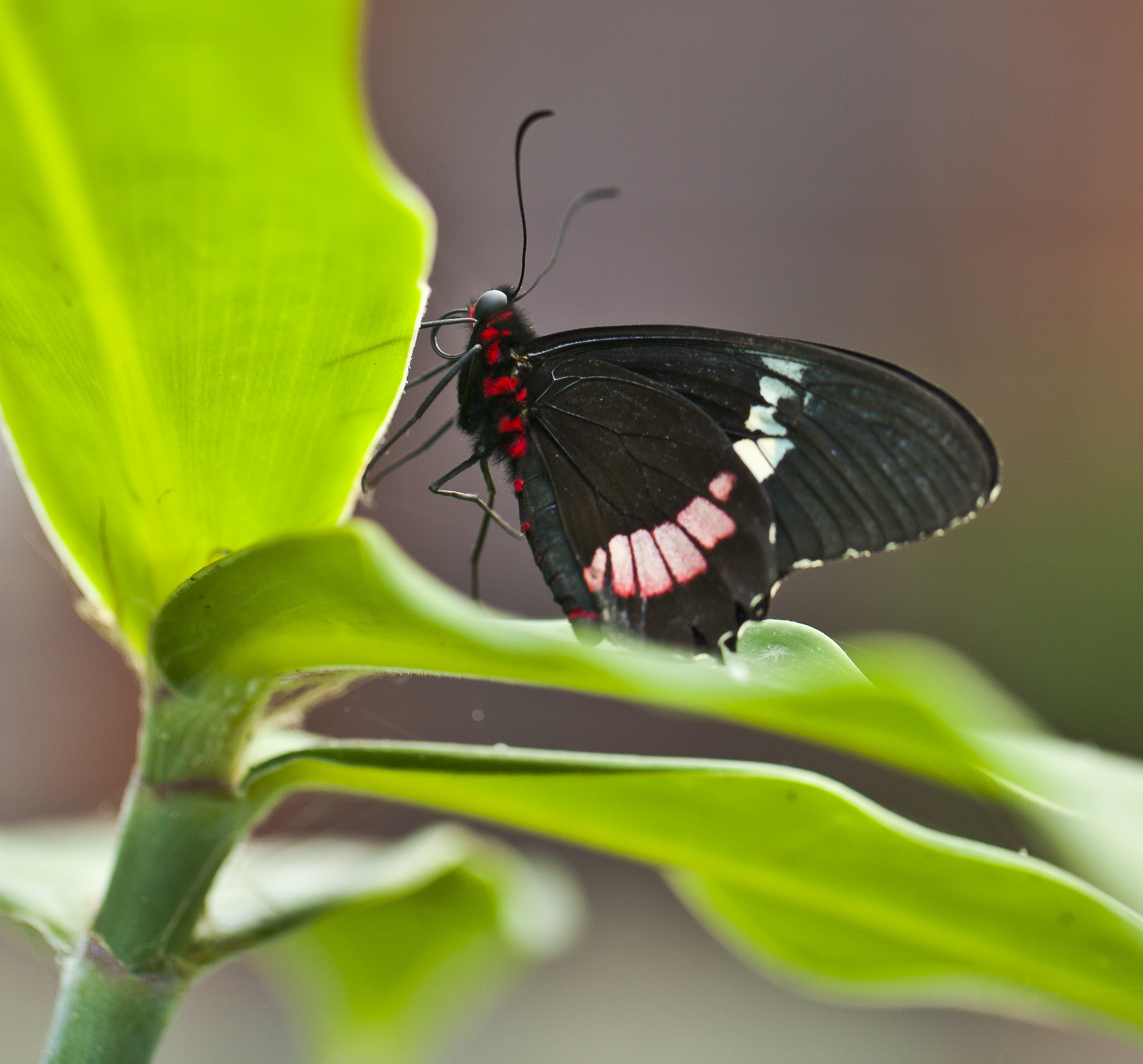 Parides iphidamas, Butterfly zoo of Icod de los Vinos, Tenerife, Spain